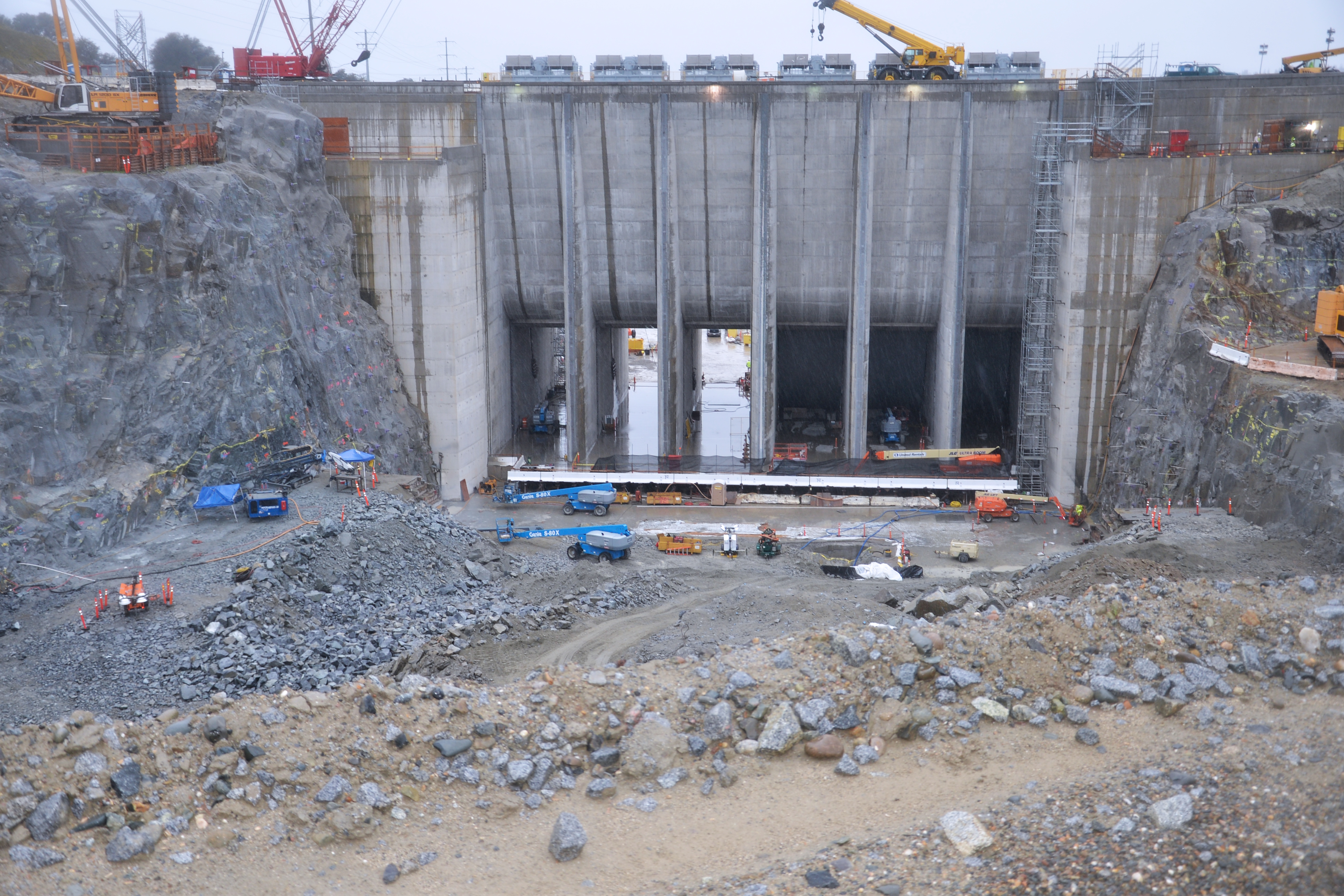 Ongoing construction at Folsom Dam